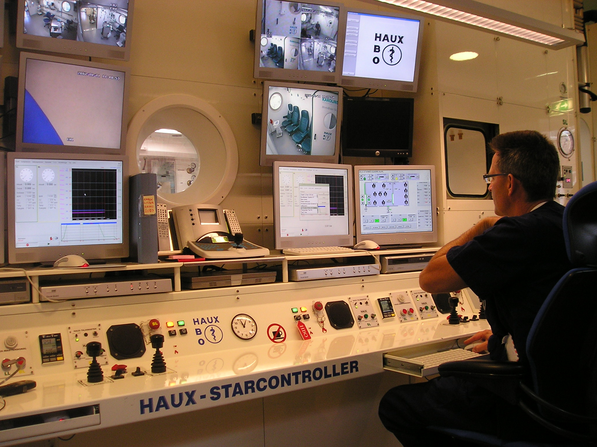 Control panel for multiplace chamber for hyperbaric oxygen treatment